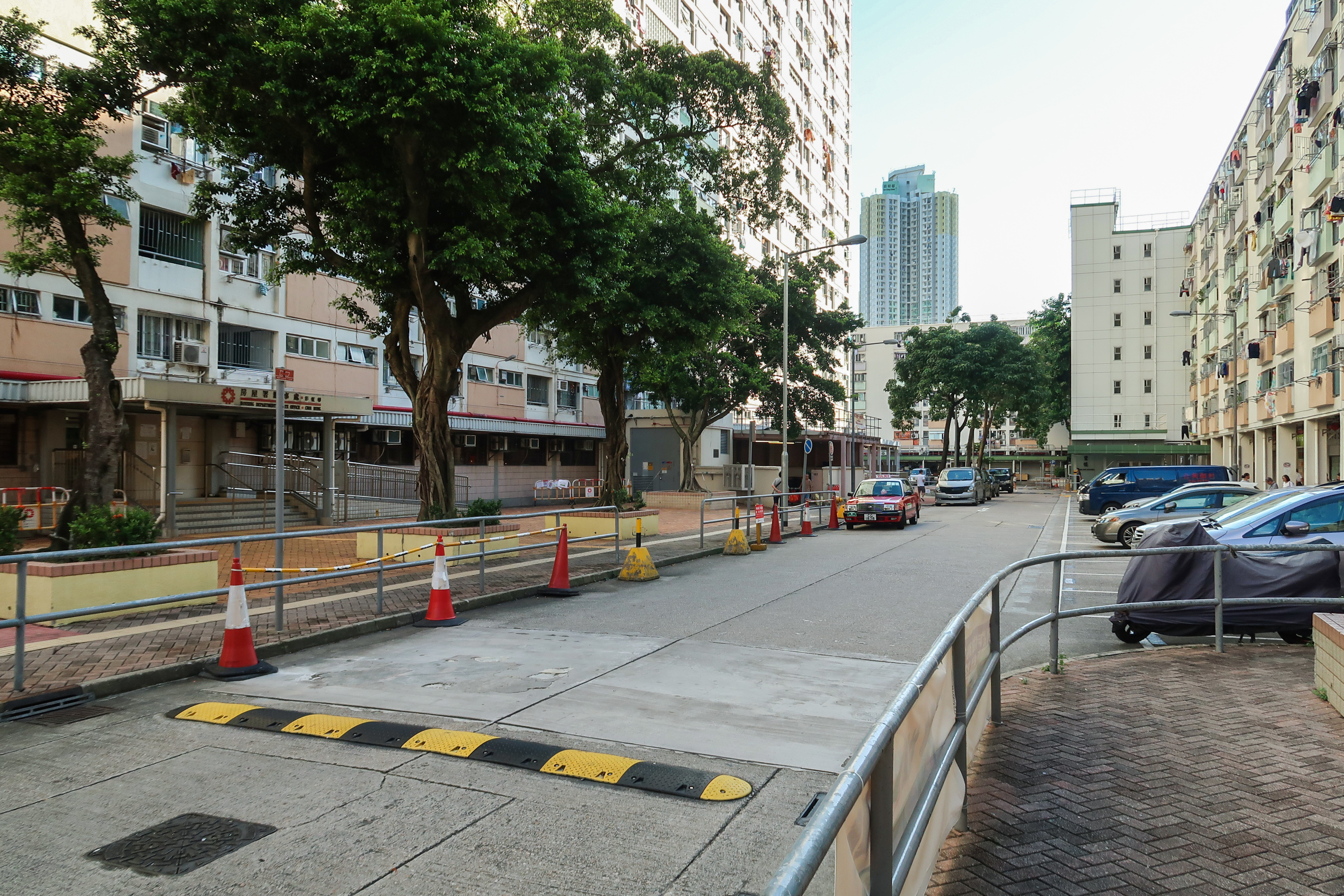 Choi Hung Estate Ching Yeung Avenue